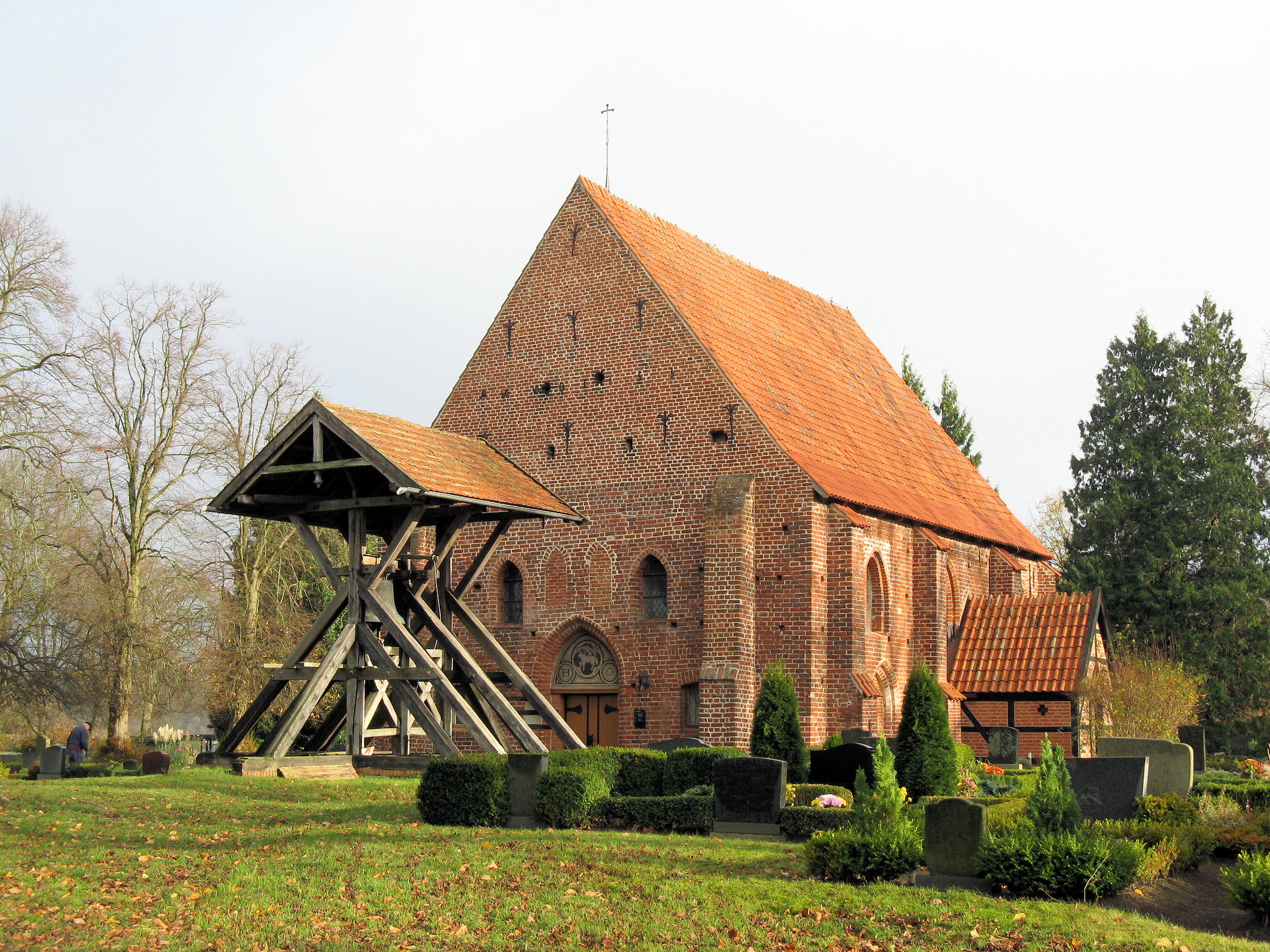 Church in Groß Trebbow, district Nordwestmecklenburg, Mecklenburg-Vorpommern, Germany